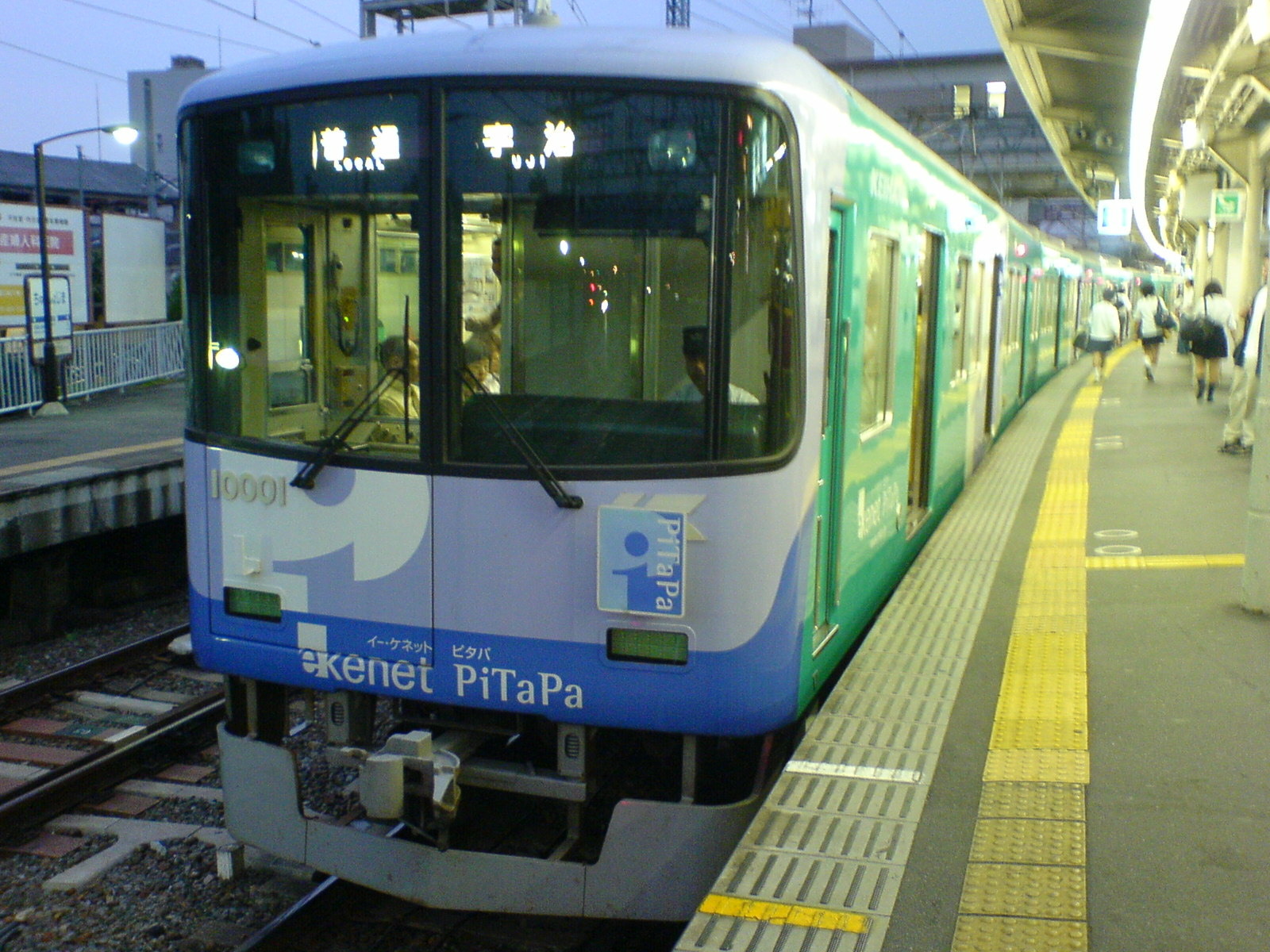 Keihan 10000 series EMU set 10001 at Chushojima Station